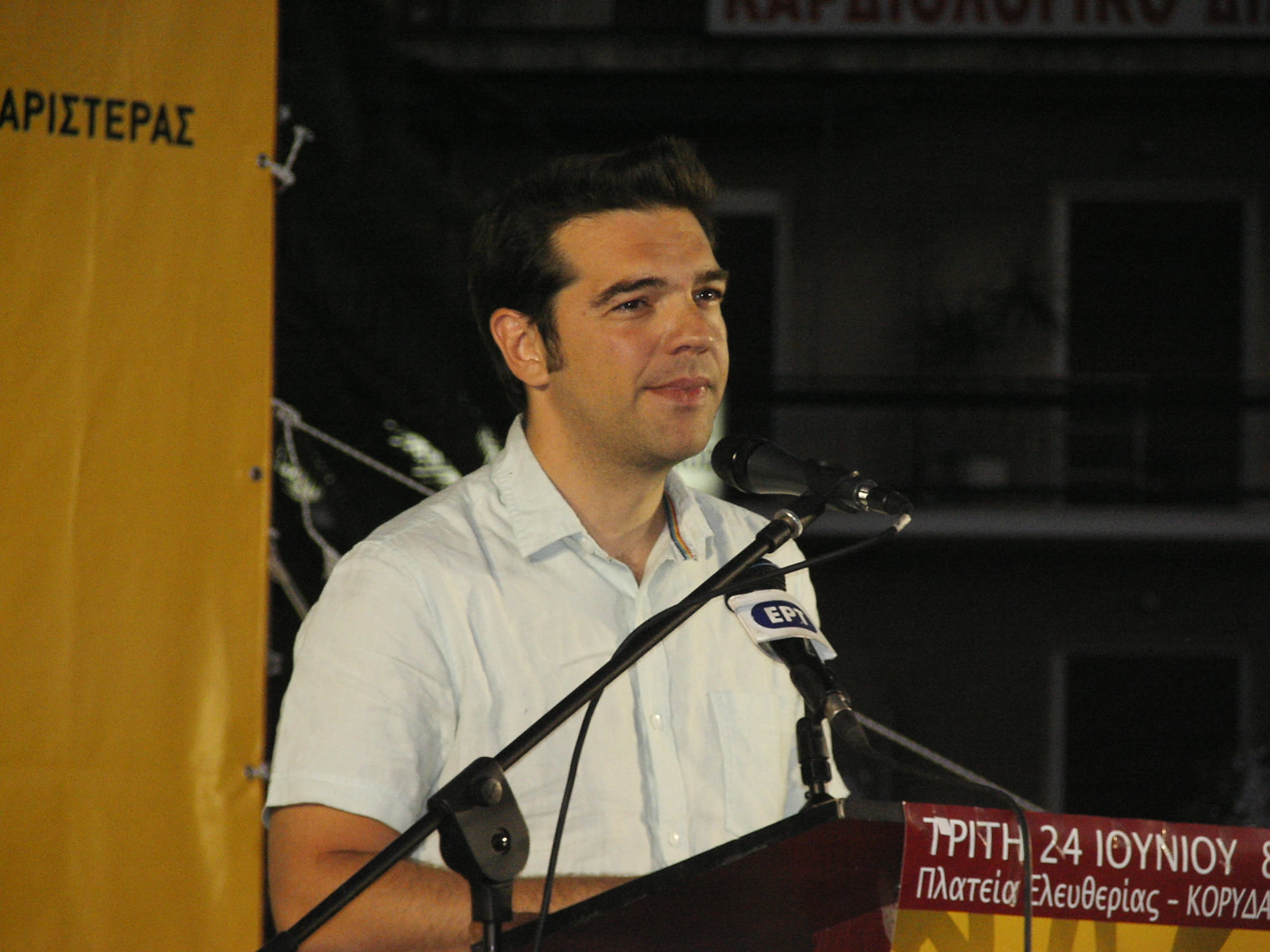 Greek politician Alexis Tsipras, chairman of Synaspismos